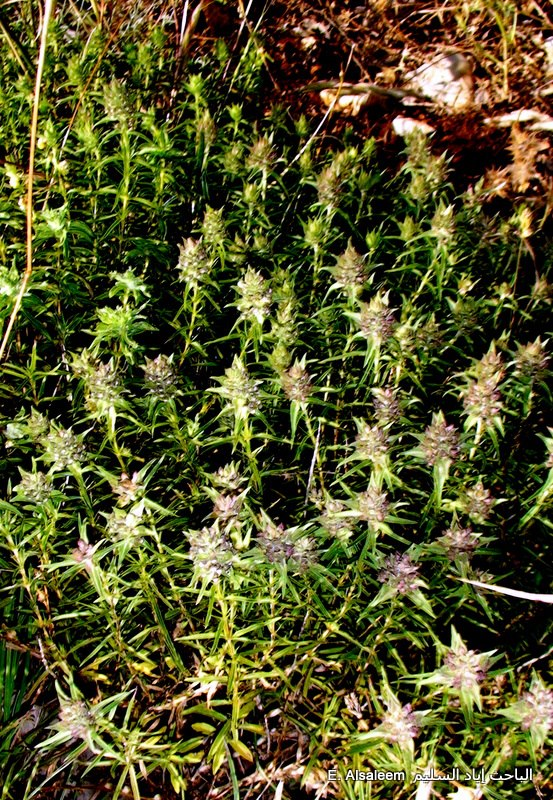 نباتات برّية سورية تؤكل